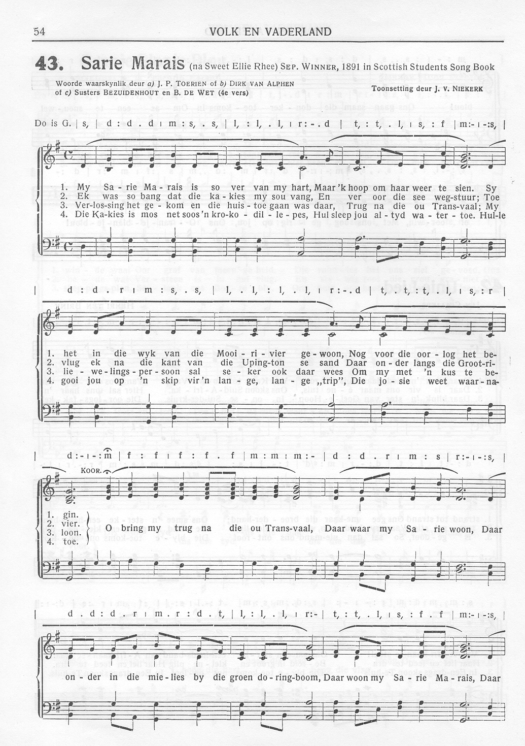 Excerpt from the F.A.K.-Volksangbundel.